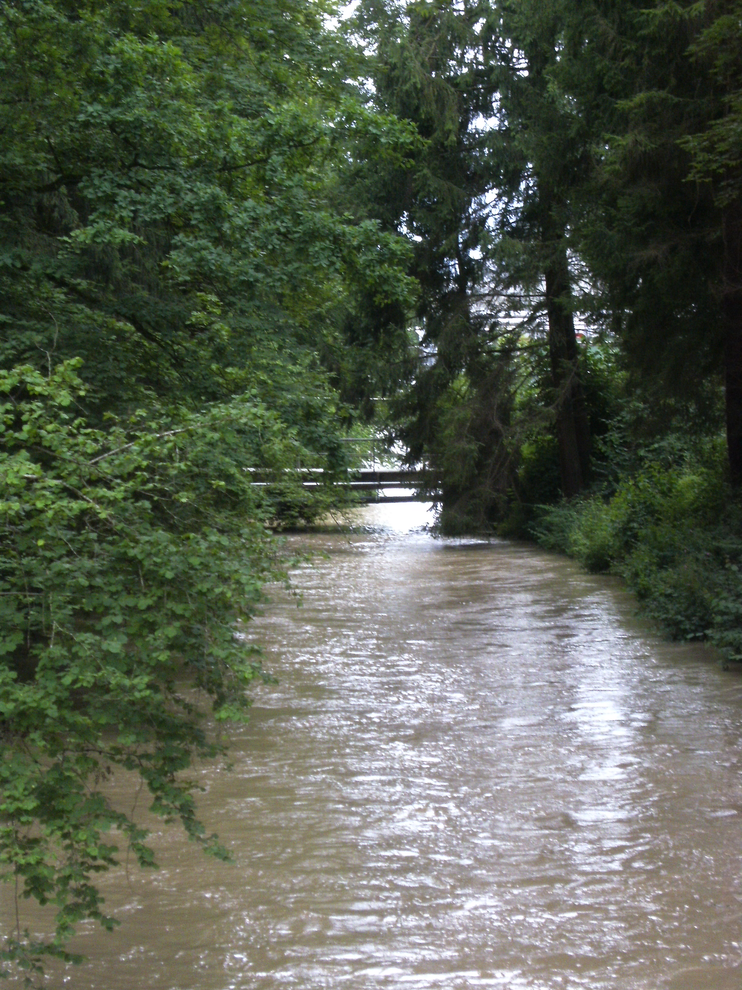 Emme after a thunderstorm